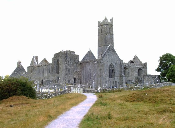 Personal photo of Quin Abbey, Co. Clare, Ireland.